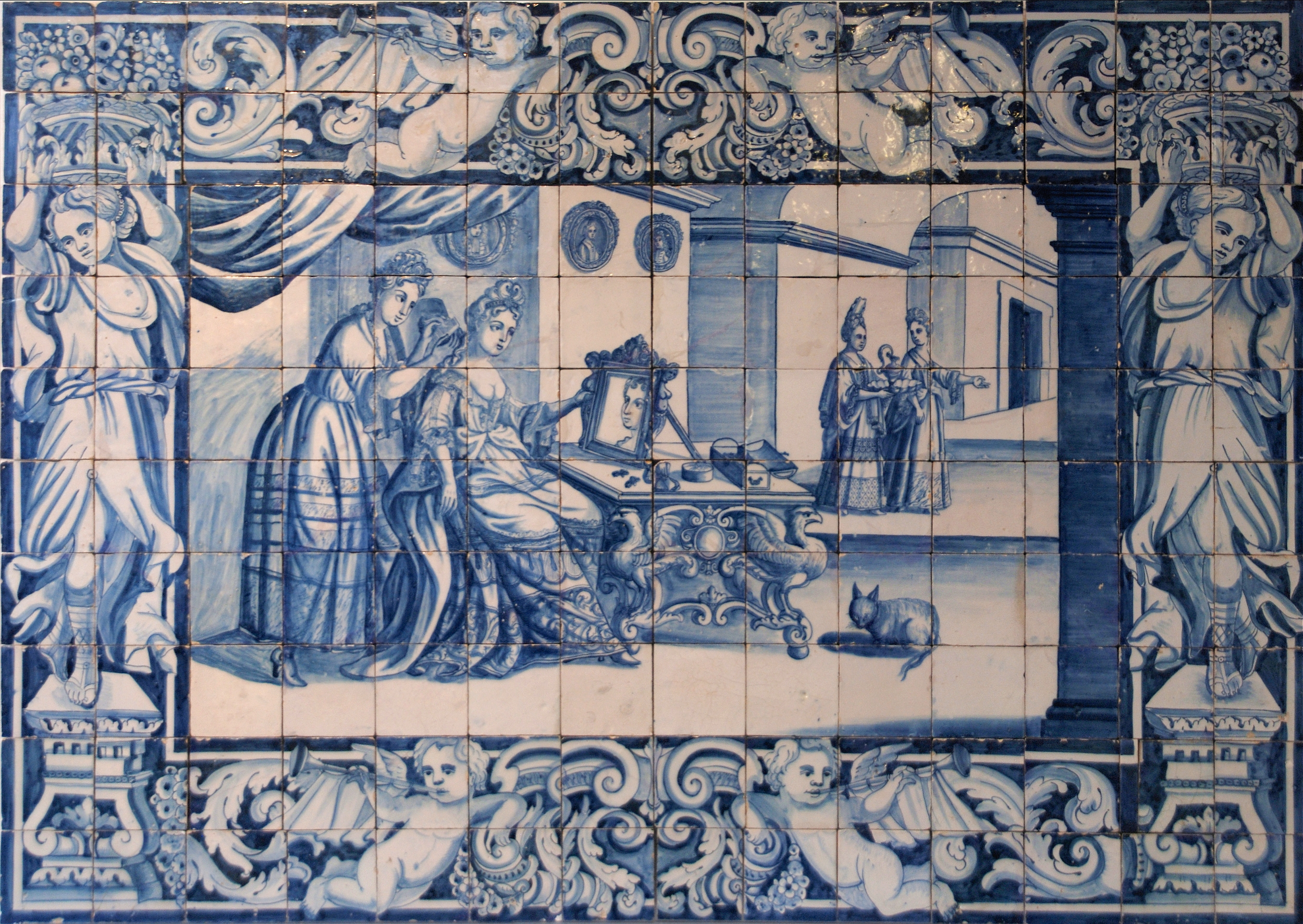 Lady at the dressing table. Attributed to monogrammist PMP. Lisboa, c. 1720-30. Museu Nacional do Azulejo, Lisbon, Portugal